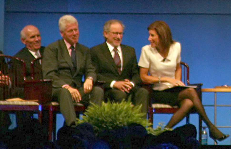 Former President Clinton with 2009 Liberty Medal recipient Steven Spielberg